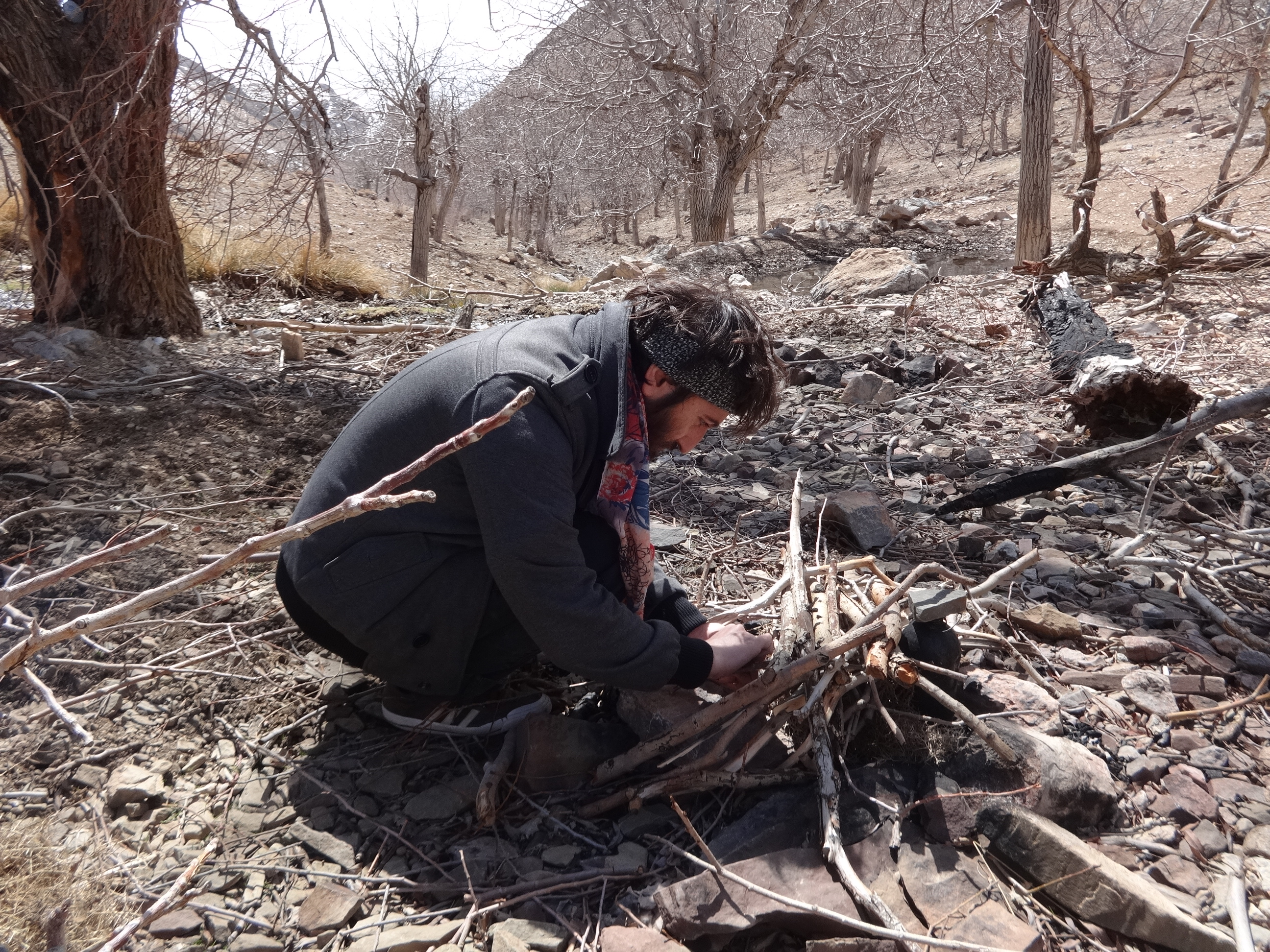 آهودر